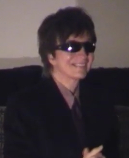 Director Michael Cimino at an event in 2003